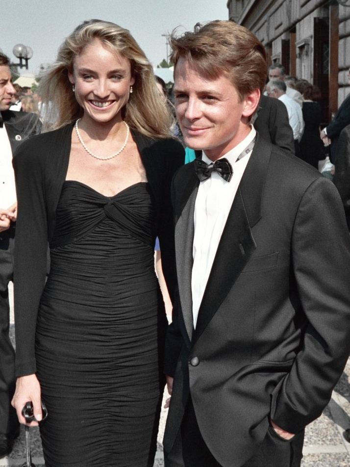 Actress Tracy Pollan and her husband, actor Michael J. Fox, at the 40th Emmy Awards.